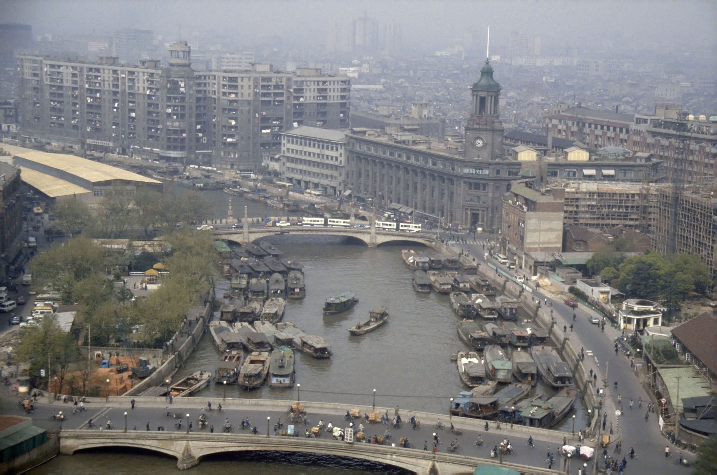 Shanghai: Suzhou Creek, view from east (Shanghai Daxia), the General Post Office is seen on the right